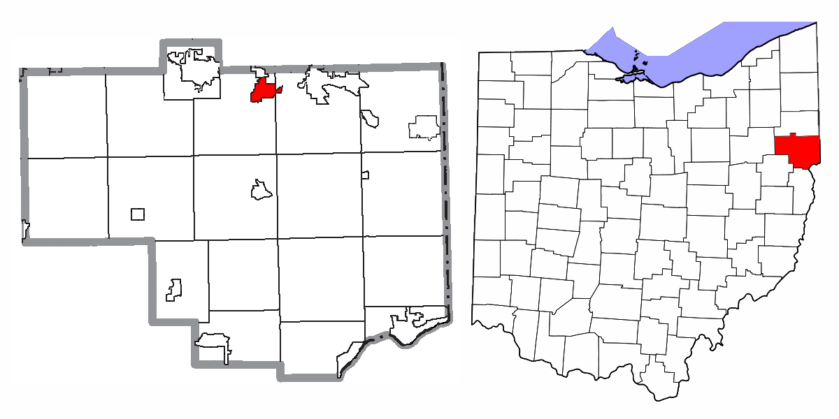 Map highlighting Village of Leetonia, Columbiana County, Ohio.